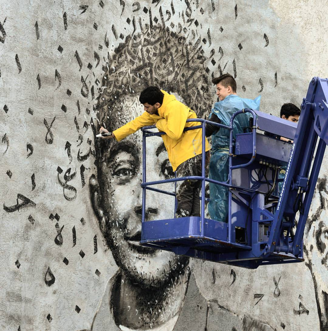 This photo depicts Yazan Halwani on a crane painting a building in Dortmund, Germany. The mural is entitled "The Flower Salesman" and represents a portrait of Fares, a Syrian boy that used to sell flowers in Beirut.